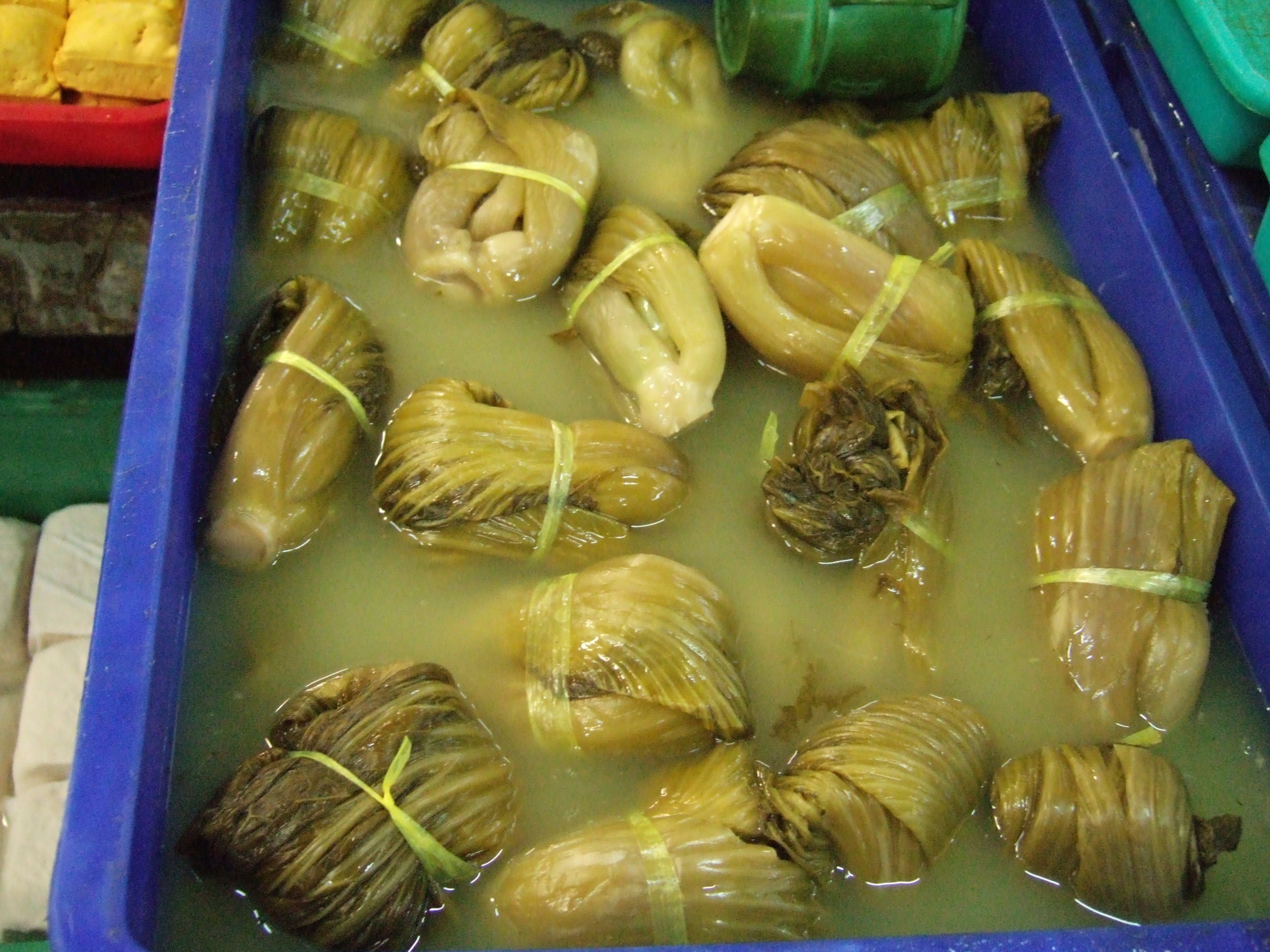 Pickled mustard green, Jakarta, Indonesia